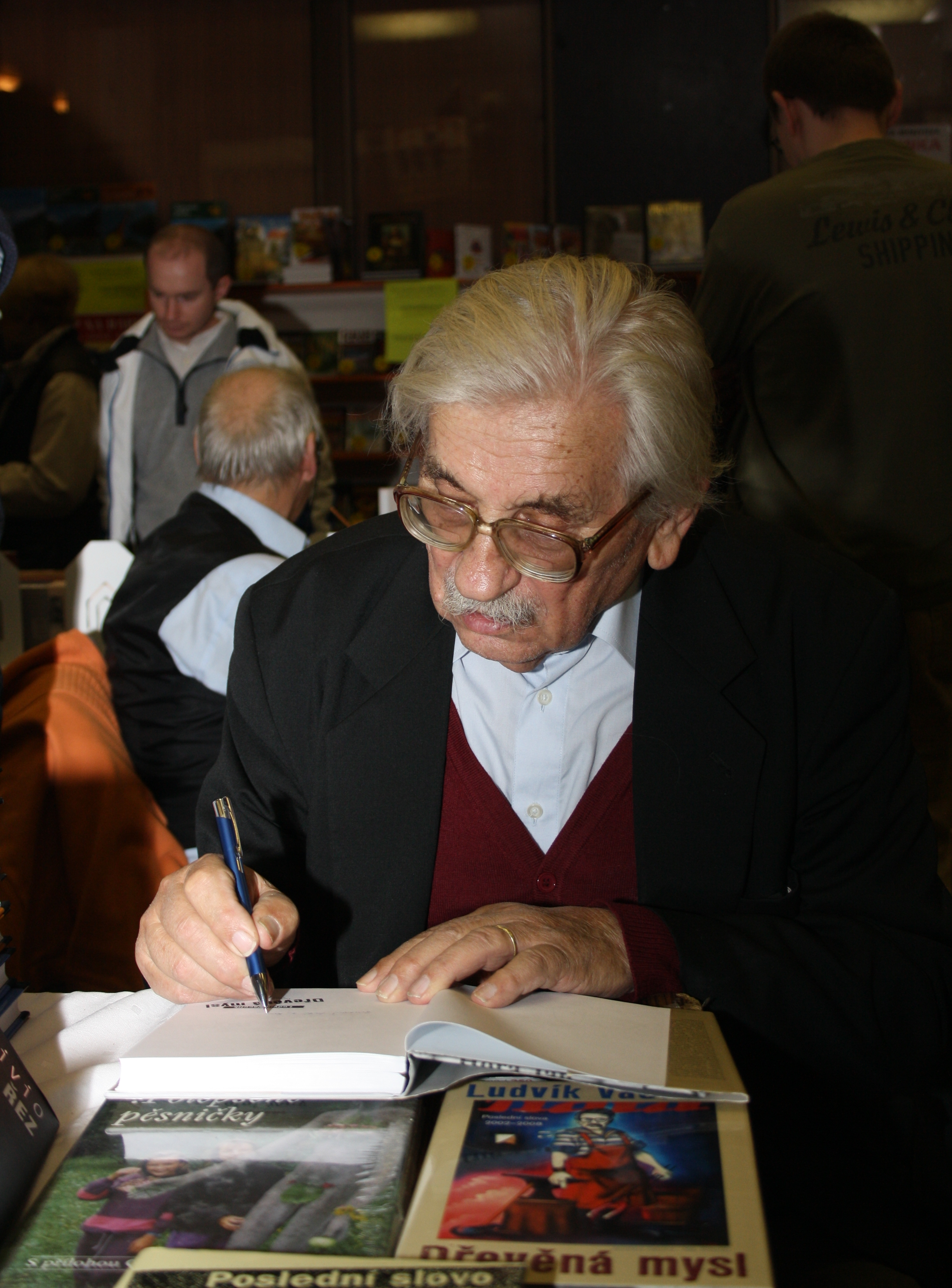 Ludvík Vaculík, Czech writer